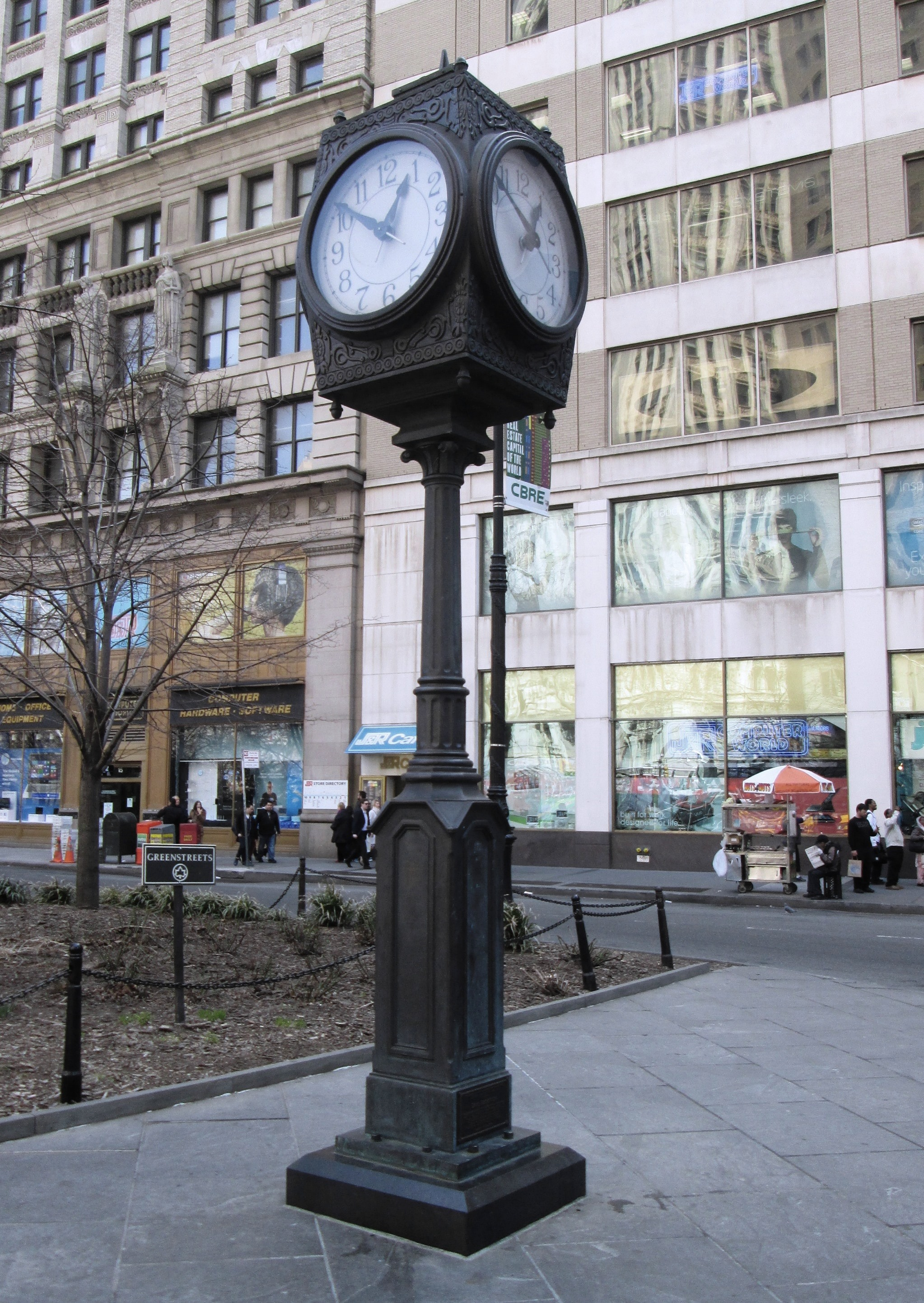 The street clock at Broadway and Park Row in the Civic Center district of Manhattan, New York City was a gift made in October 2000 to the City of New York from the Alliance for Downtown New York in honor of David Rockefeller. (Source: Plaque on clock's base)